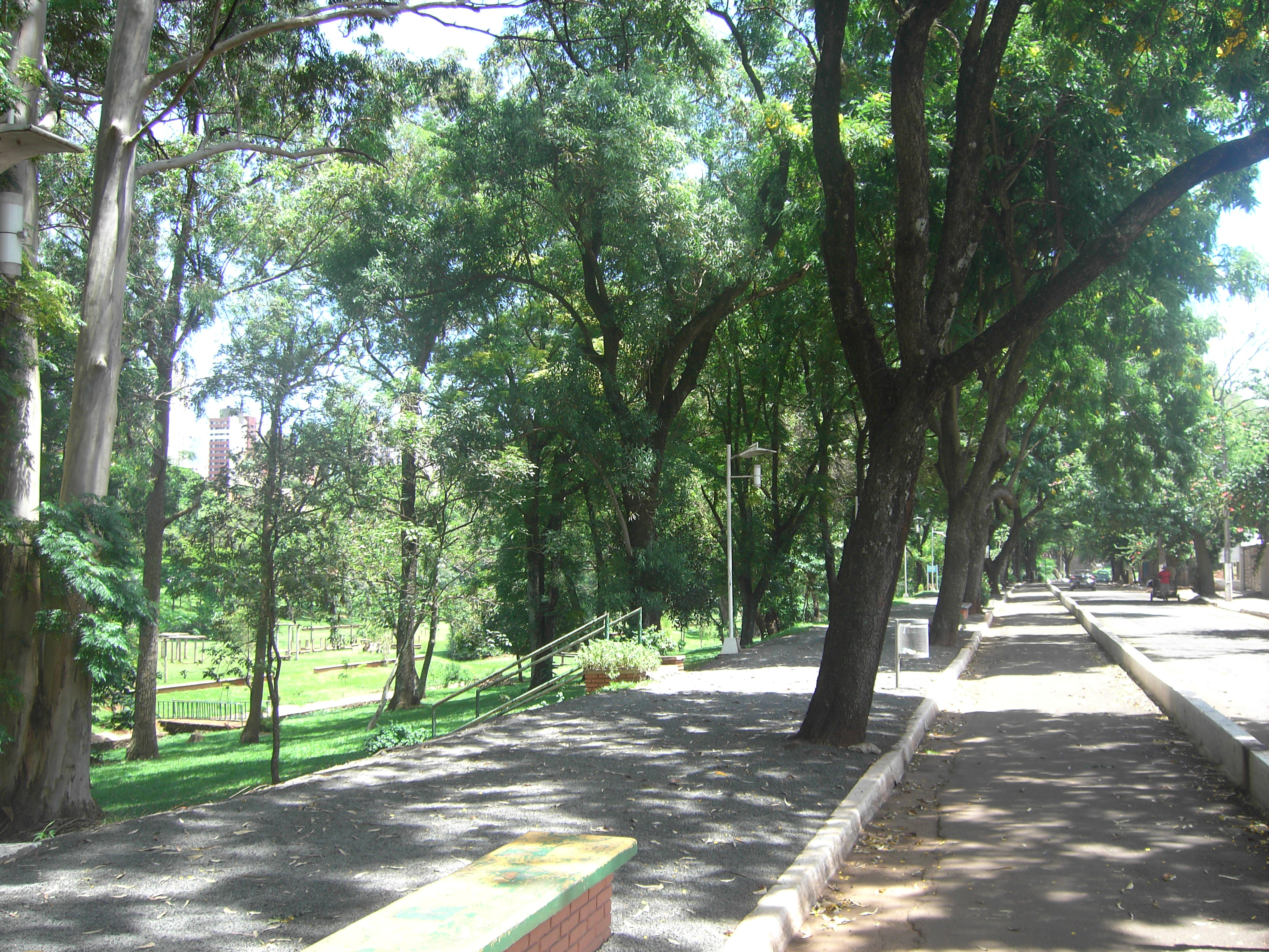 Zerão, Londrina PR,Brazil.